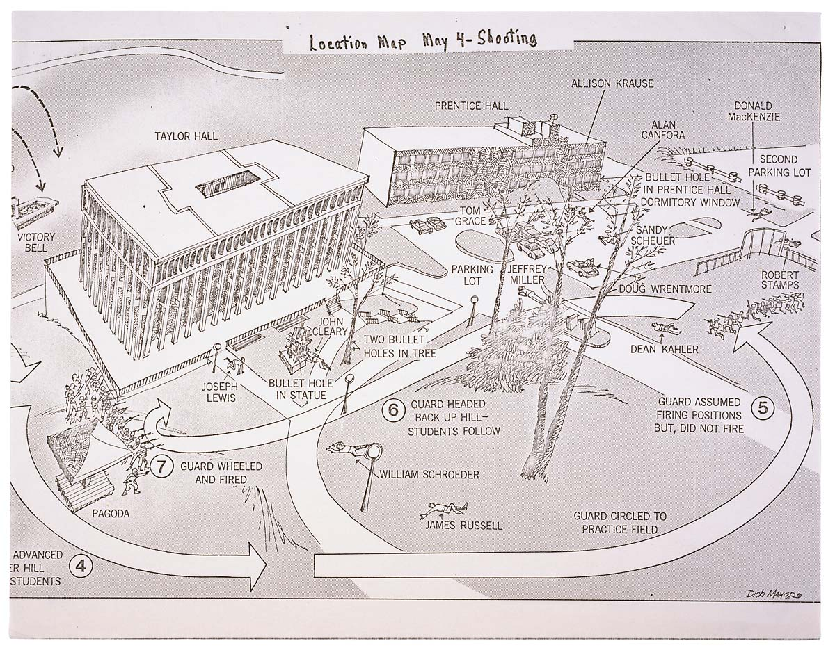 This is a printed map detailing the locations of structures, troop movements, bullet hole locations, and locations of casualties at the Kent State shooting of May 4, 1970.